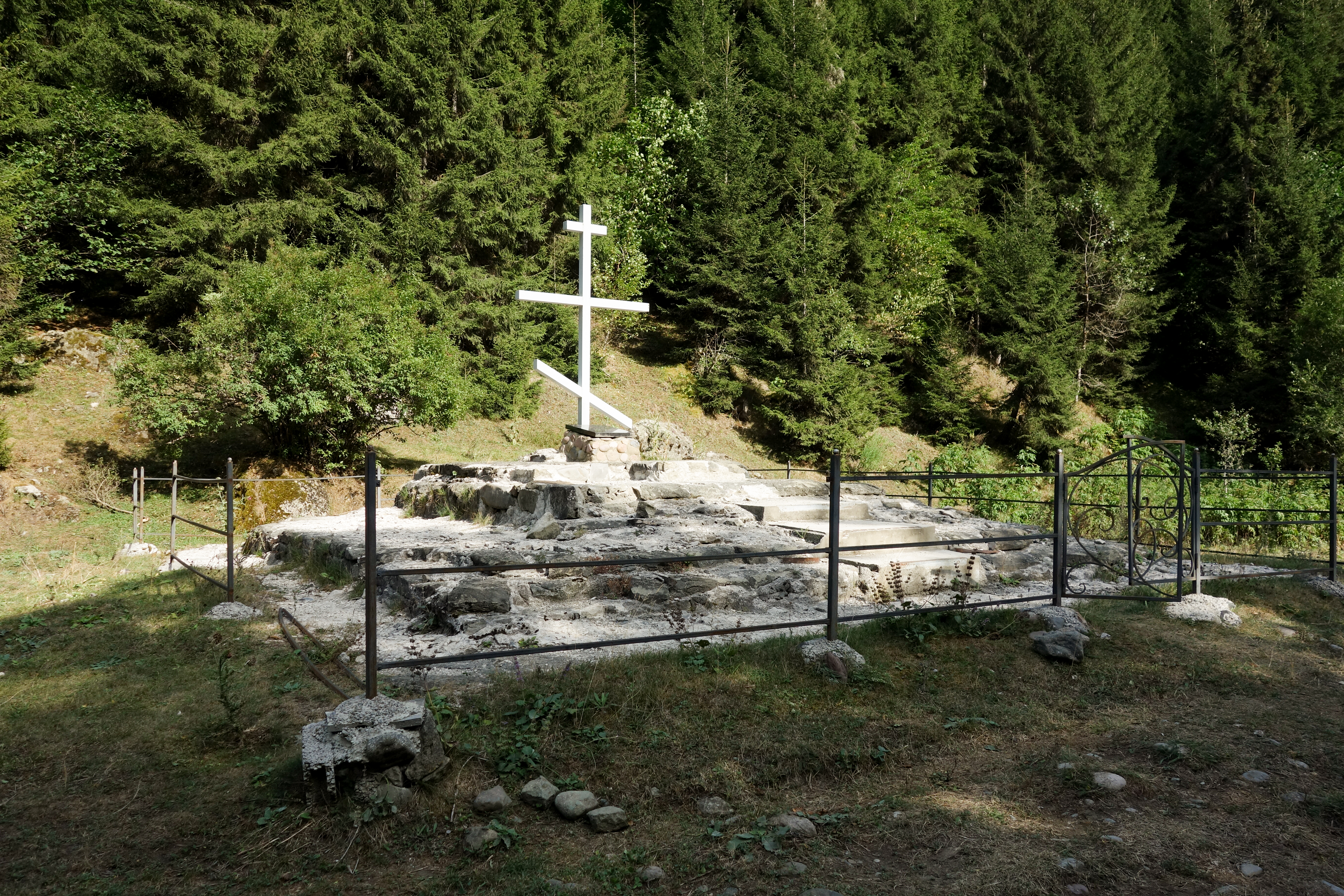 Deathplace of George Alexandrovich Romanov, Abastumani, Samtskhe-Javakheti, Georgia